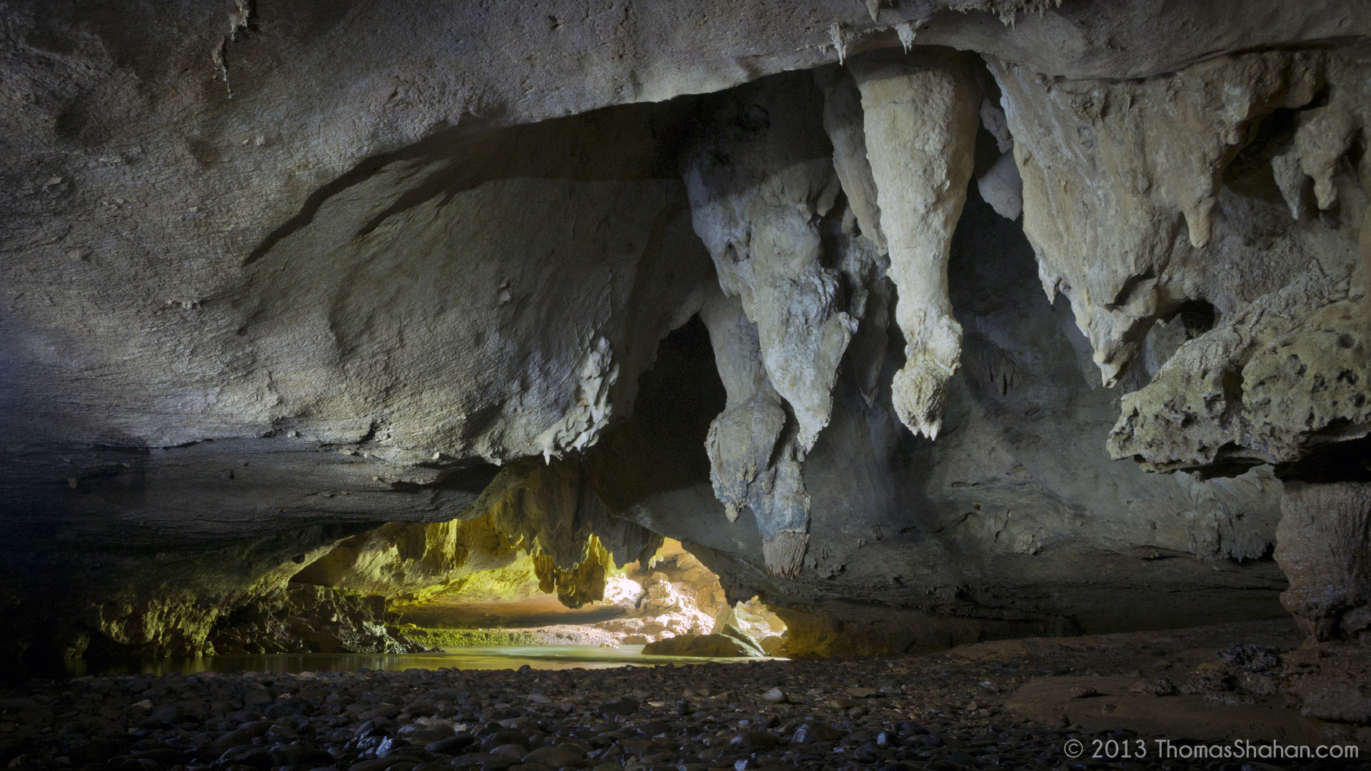 Rio Frio Cave